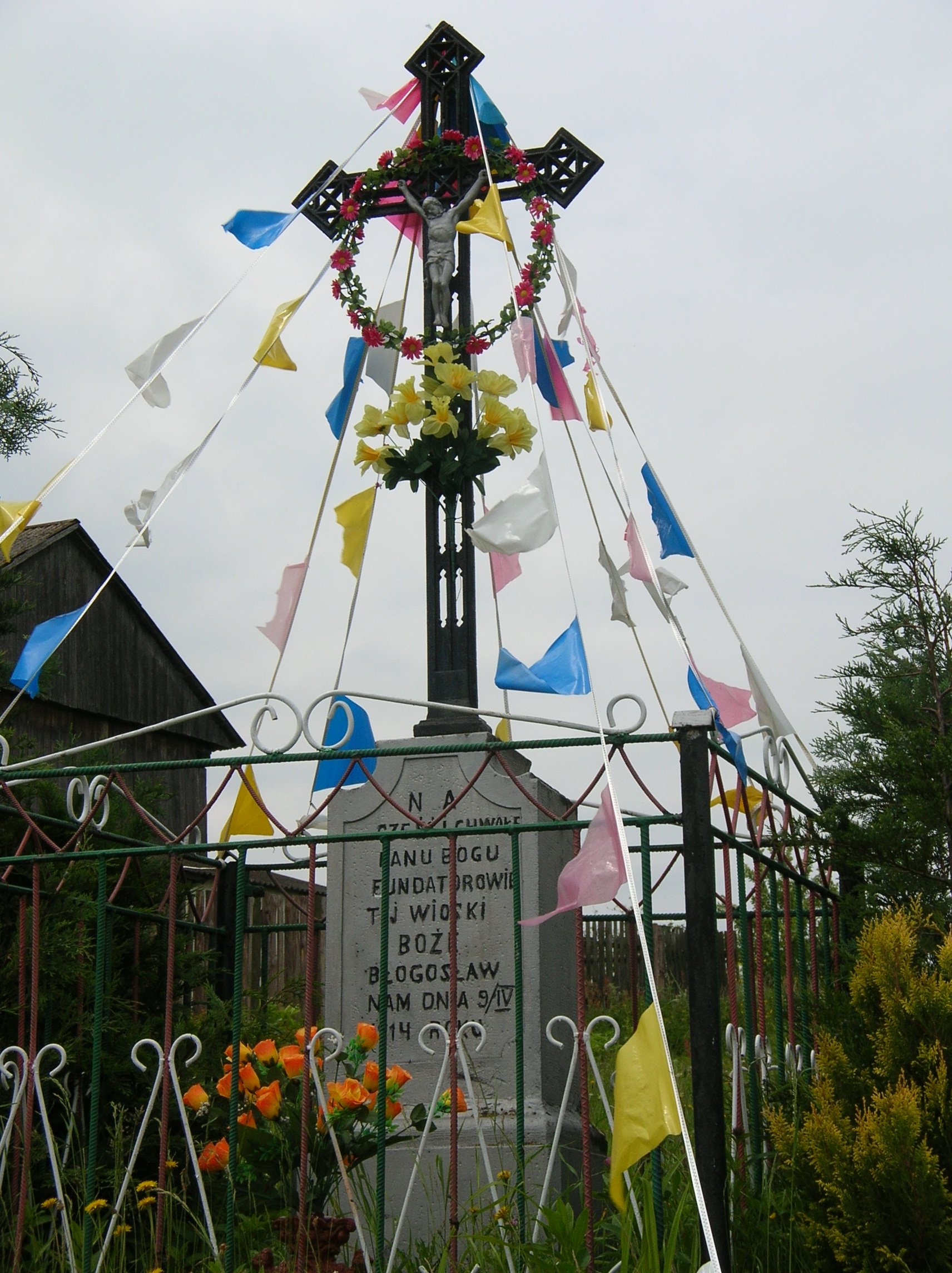 Crucifix in Zaskale. 1914.